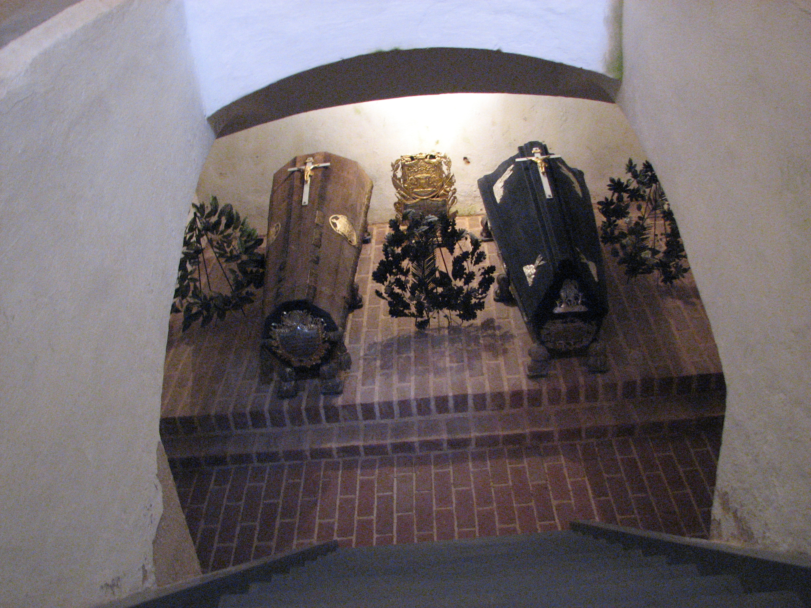 Mausoleum of Barclay de Tolly in Jõgeveste, Estonia